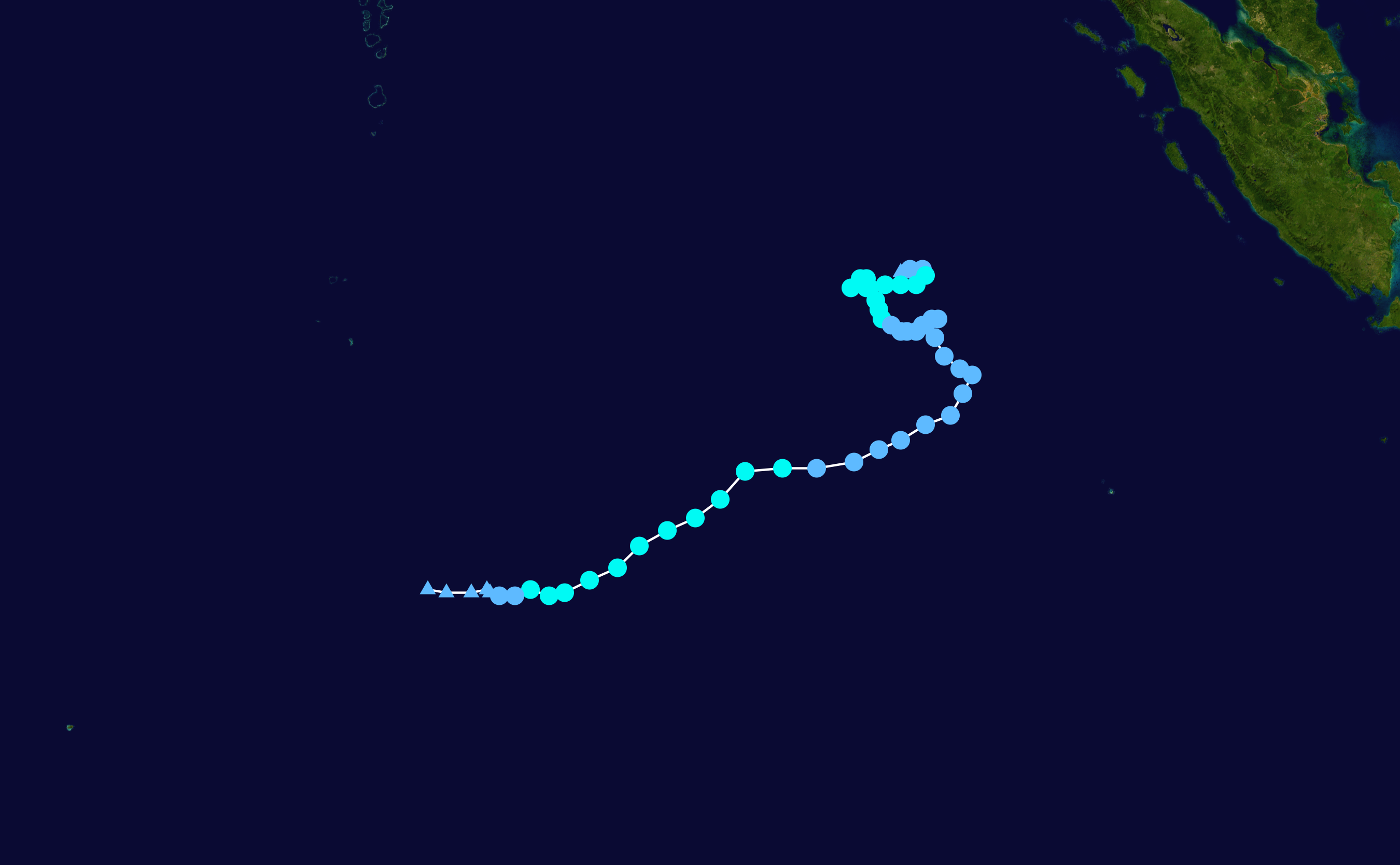 Track map of Severe Tropical Storm Bouchra of the 2018-19 South-West Indian Ocean cyclone season and the 2018-19 Australian region cyclone season. The points show the location of the storm at 6-hour intervals. The colour represents the storm's maximum sustained wind speeds as classified in the Saffir–Simpson scale (see below), and the shape of the data points represent the nature of the storm, according to the legend below. Saffir–Simpson scale Tropical depression≤38 mph≤62 km/h Category 3111–129 mph178–208 km/h Tropical storm39–73 mph63–118 km/h Category 4130–156 mph209–251 km/h Category 174–95 mph119–153 km/h Category 5≥157 mph≥252 km/h Category 296–110 mph154–177 km/h Unknown Storm type Tropical cyclone Subtropical cyclone Extratropical cyclone / Remnant low / Tropical disturbance